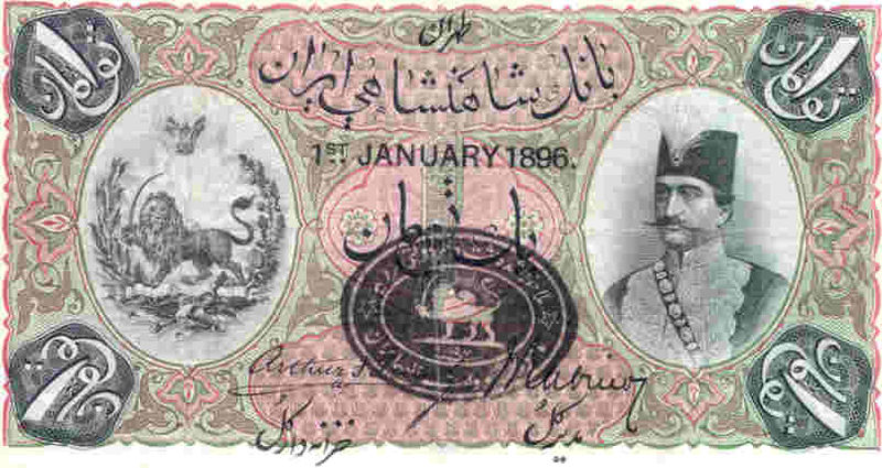 One Toman